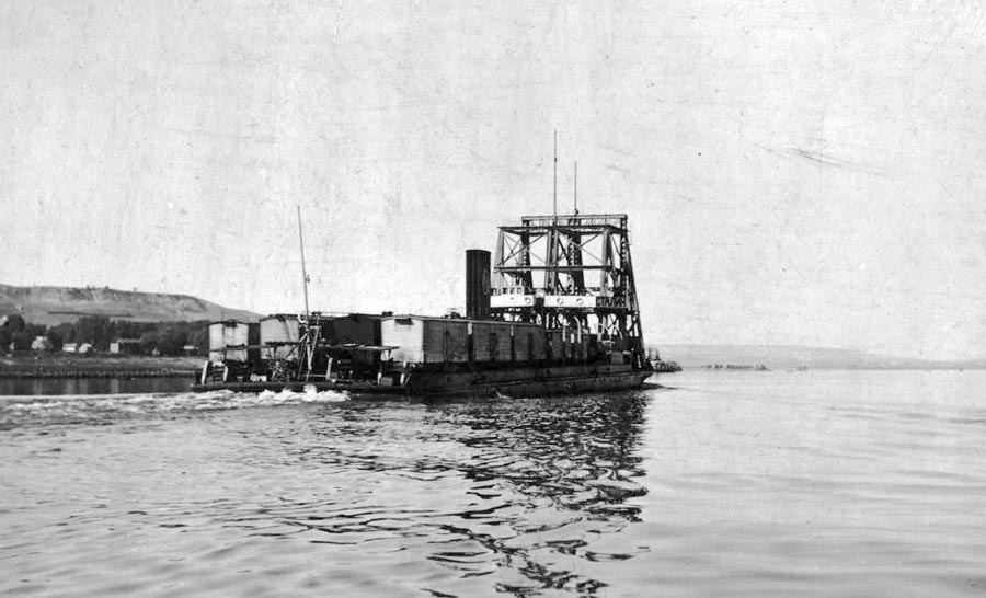 "Joseph Stalin" (until 1939 "Saratov Ferry") - a self-propelled ferry, used for the transport of railway carriages through the Volga River in the late XIX century.